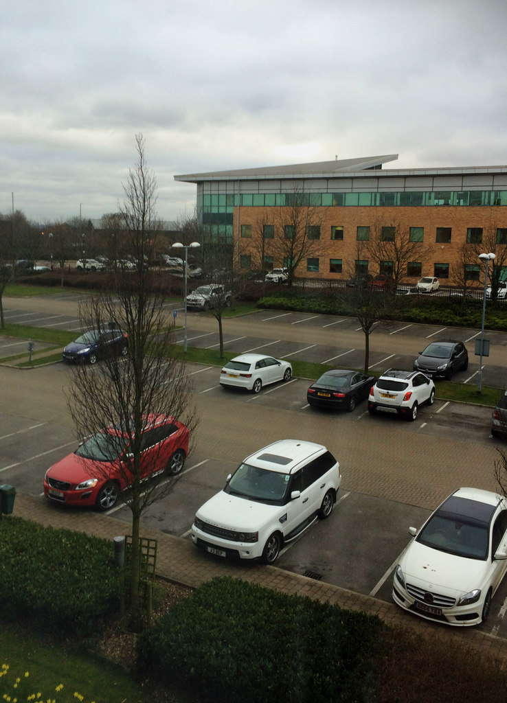 The view from room 317 Thorpe Park hotel Leeds